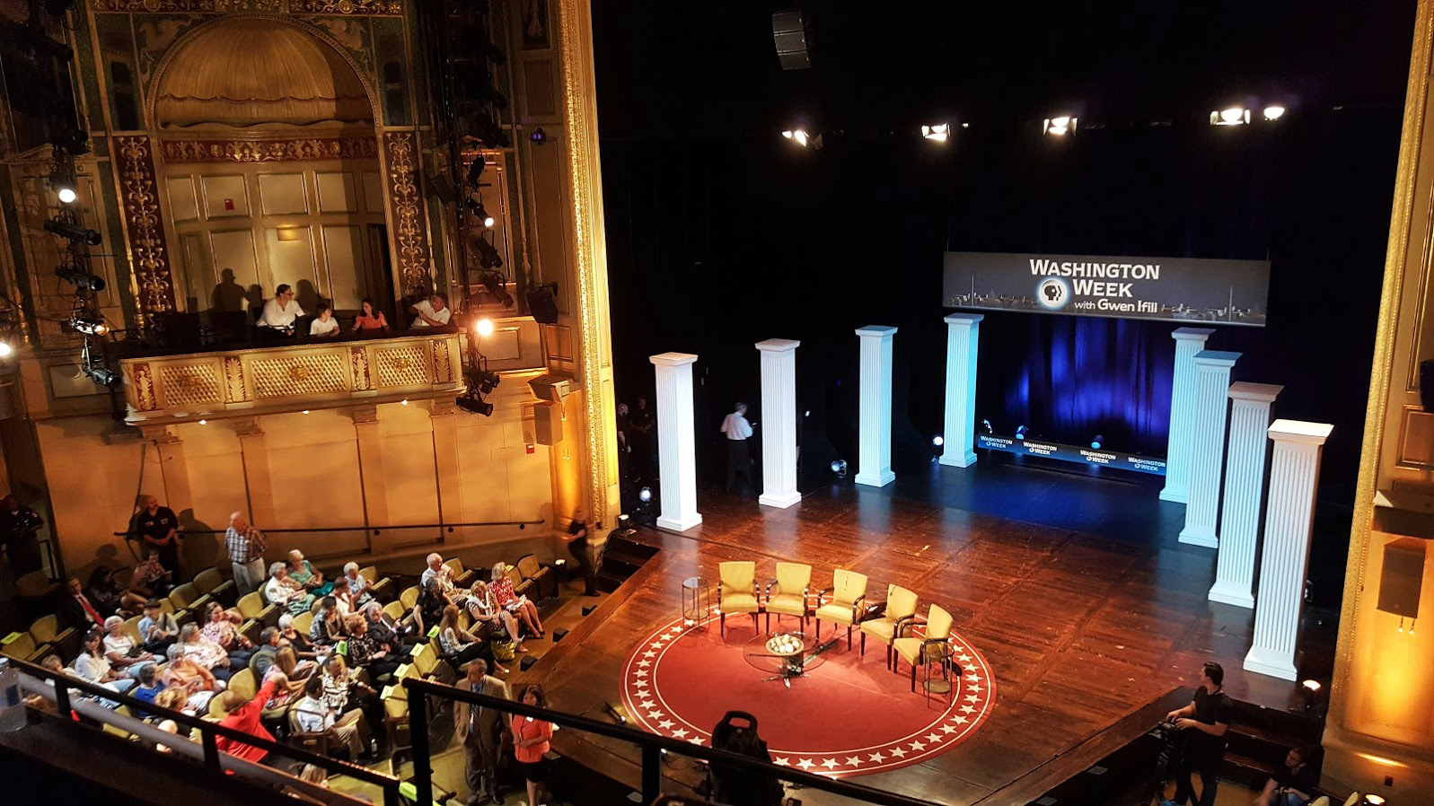 The stage is ready for the taping... I went to see the taping of "Washington Week" at the Hanna Theatre in Cleveland, Ohio, on July 15, 2016. "Washington Week" is a weekly PBS public affairs show which airs on most stations on Friday. The host is Gwen Ifill. They taped two episodes of "Washington Week" the same afternoon. One was the regular show, and one was the "Special RNC Cleveland Edition" -- in which they took questions from the audience.